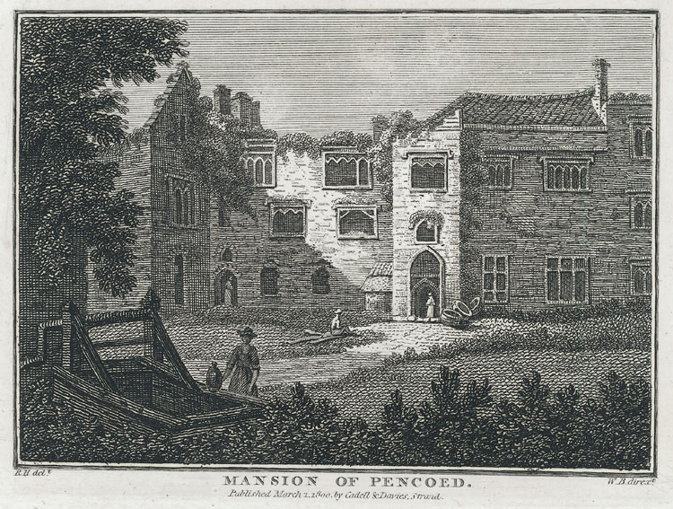 Abstract: Two images, one showing Penhow Castle and church and the other showing the ruins of Pencoed Castle.